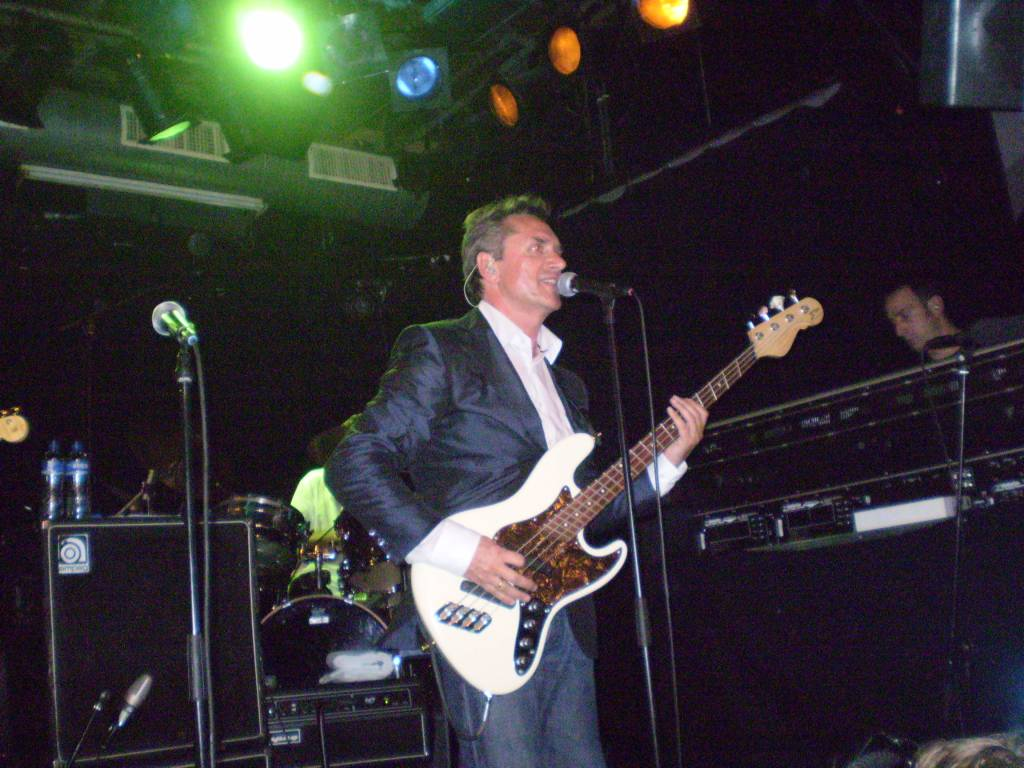 Doe Maar singer Henny Vrienten at Delft concert, June 23rd 2008